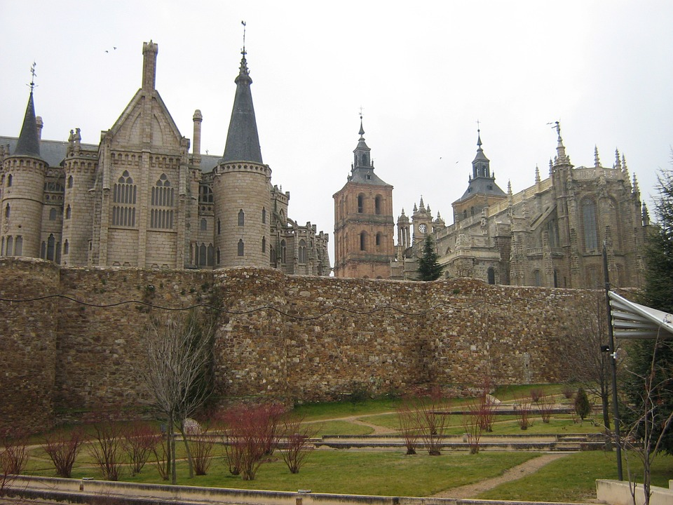 Astorga